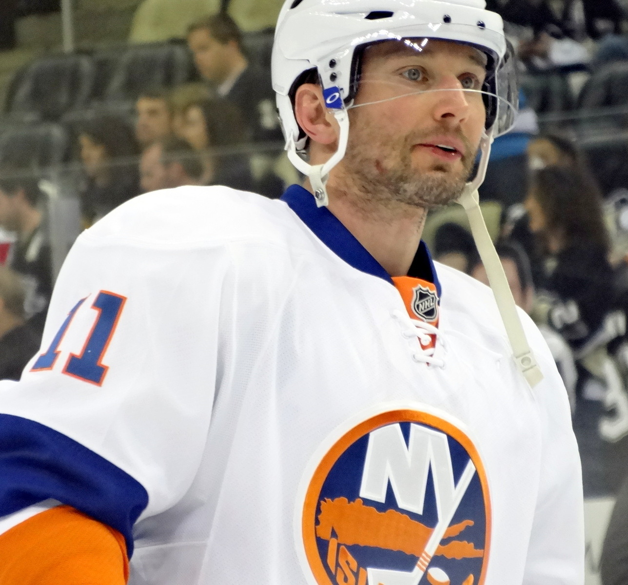 New York Islanders defenseman during round one, game five of the 2013 Stanley Cup playoffs against the Pittsburgh Penguins, May 9, 2013 at Consol Energy Center.